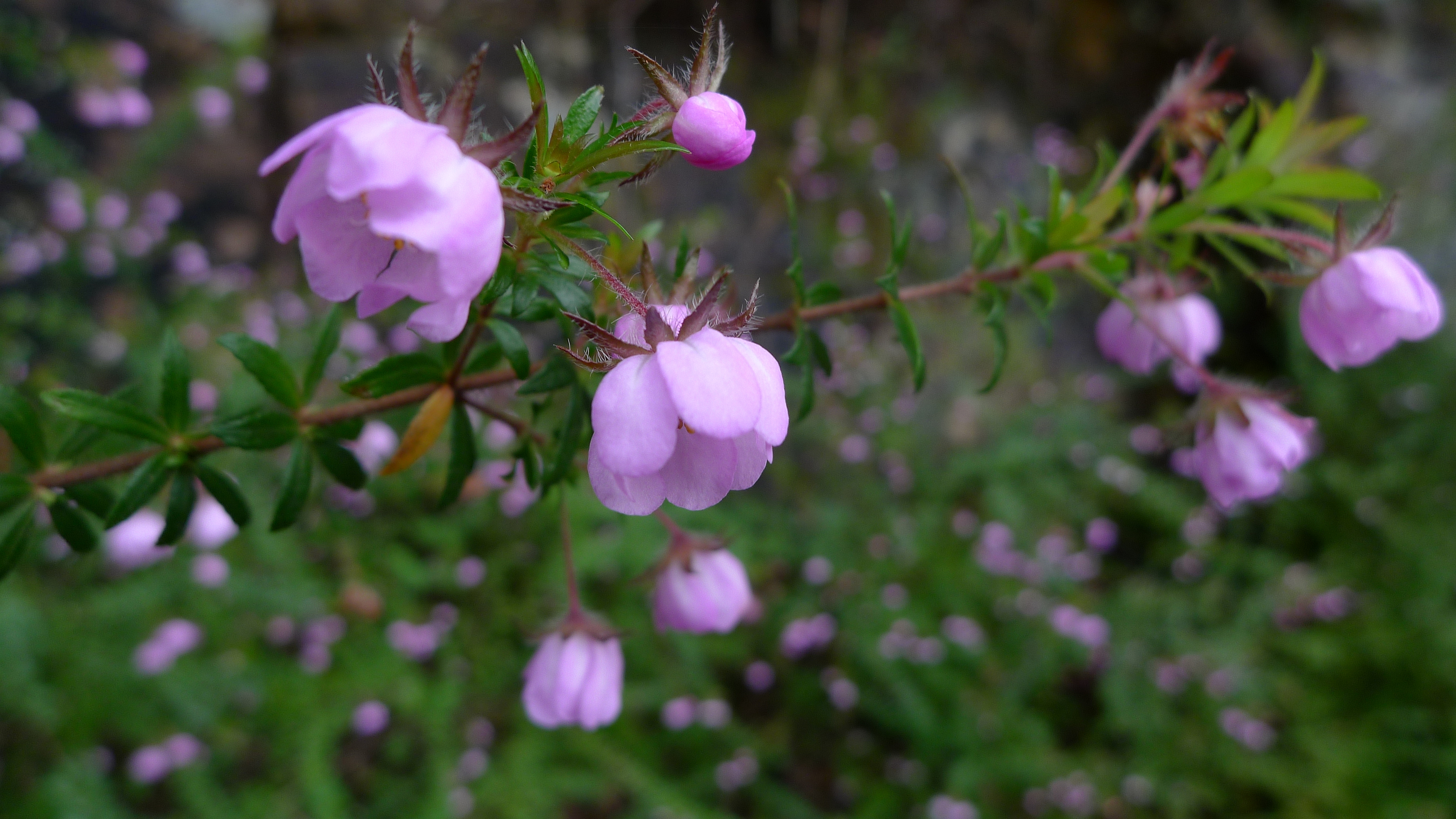 Dog Rose, Bauera rubioides. Lady Carrington Drive, Royal National Park, NSW Australia, October 2011.